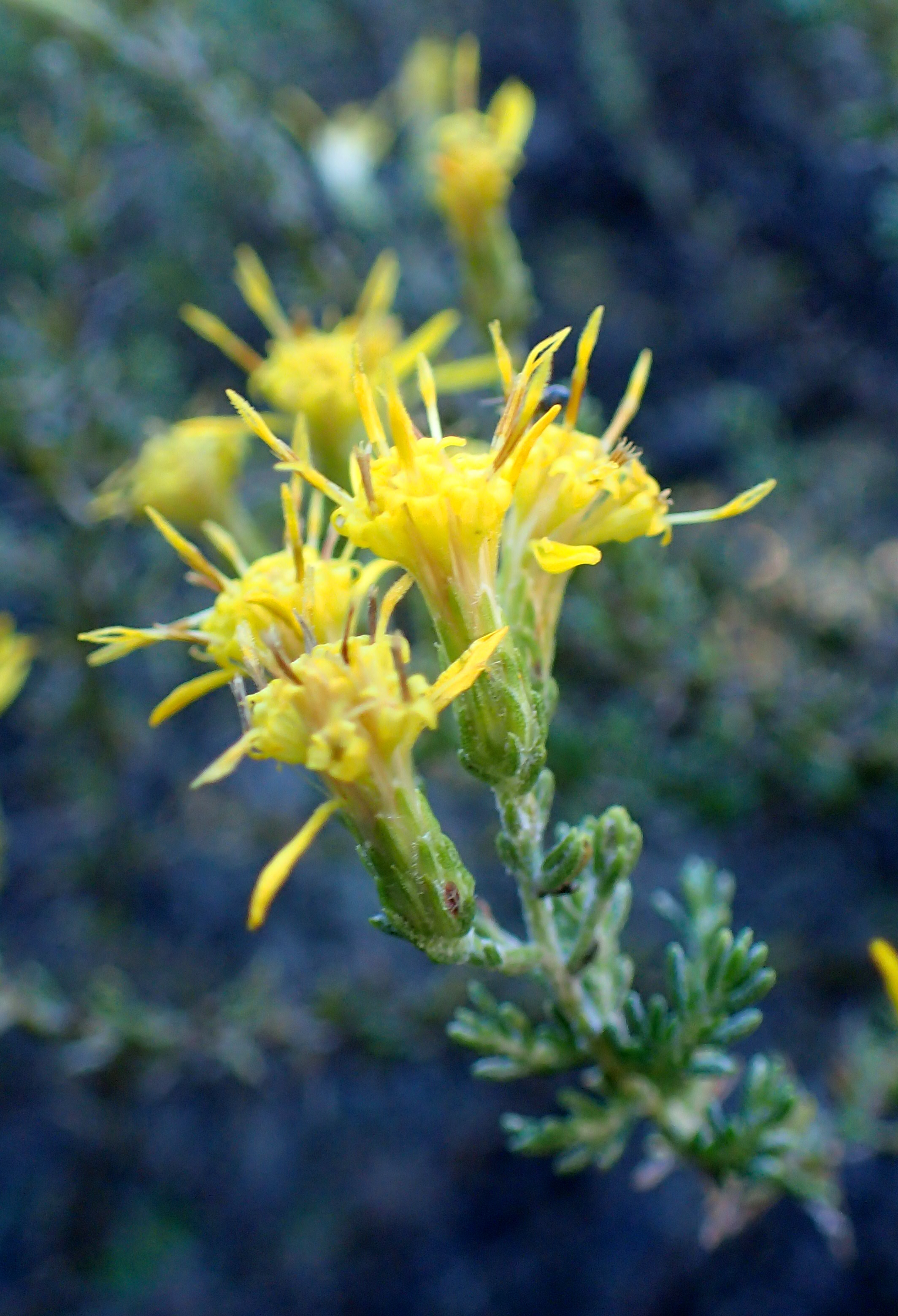 Ericameria ericoides in the San Francisco Botanical Garden